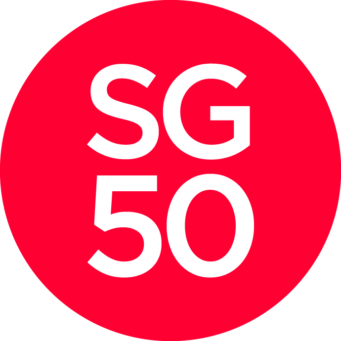 A logo designed by the Government of Singapore to celebrate the 50th anniversary of the independence of Singapore. (The colours are Pantone Red 032 and White.)